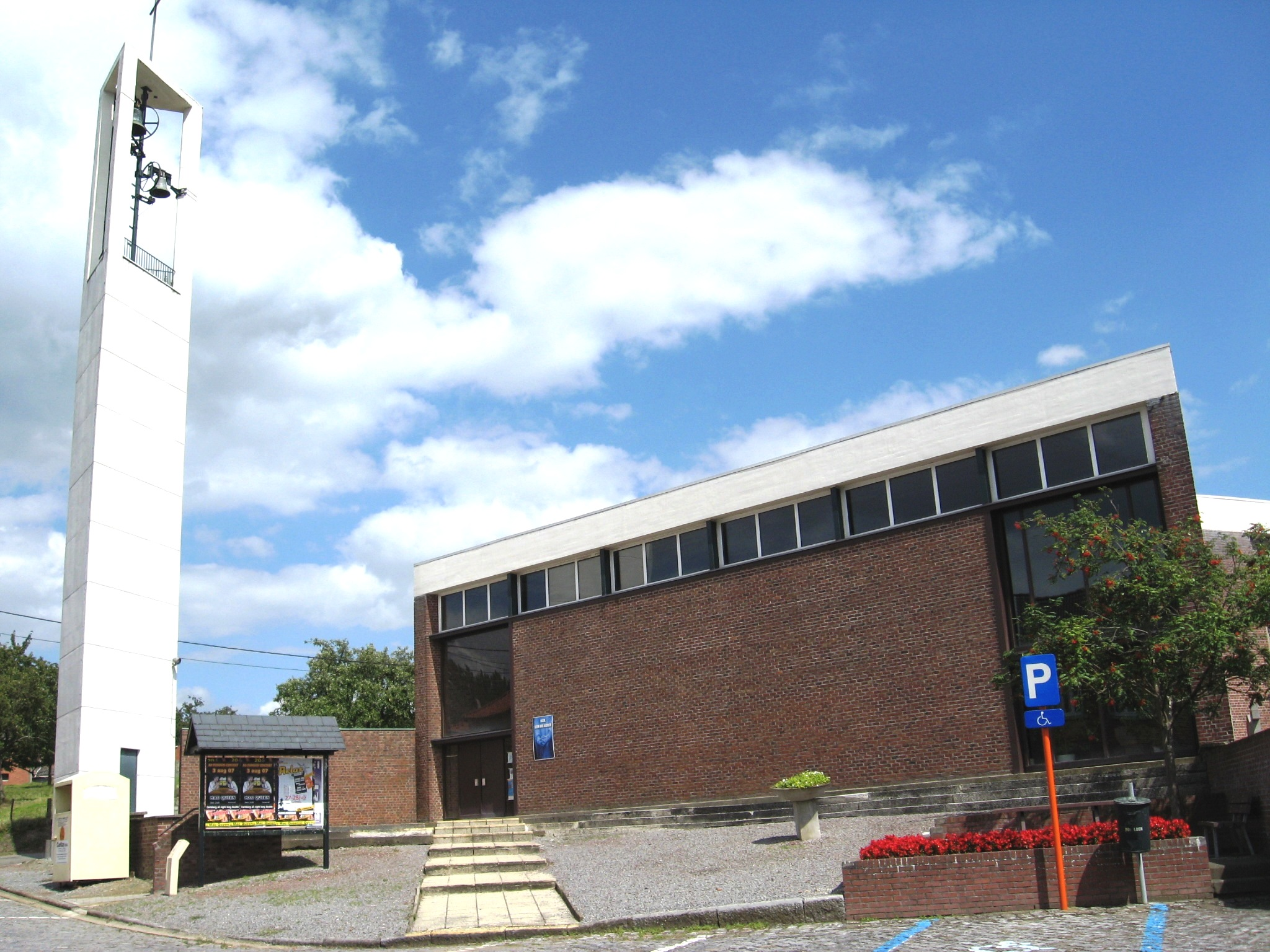 Church of Saint Lambert in Hendrieken, Borgloon, Limburg, Belgium